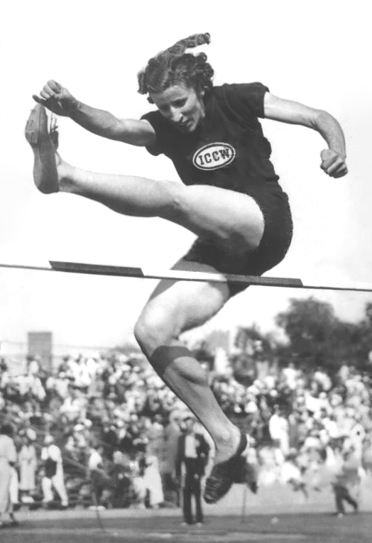 1936 Press Photo Annette Rogers wins best in High Jump at Women's Meet